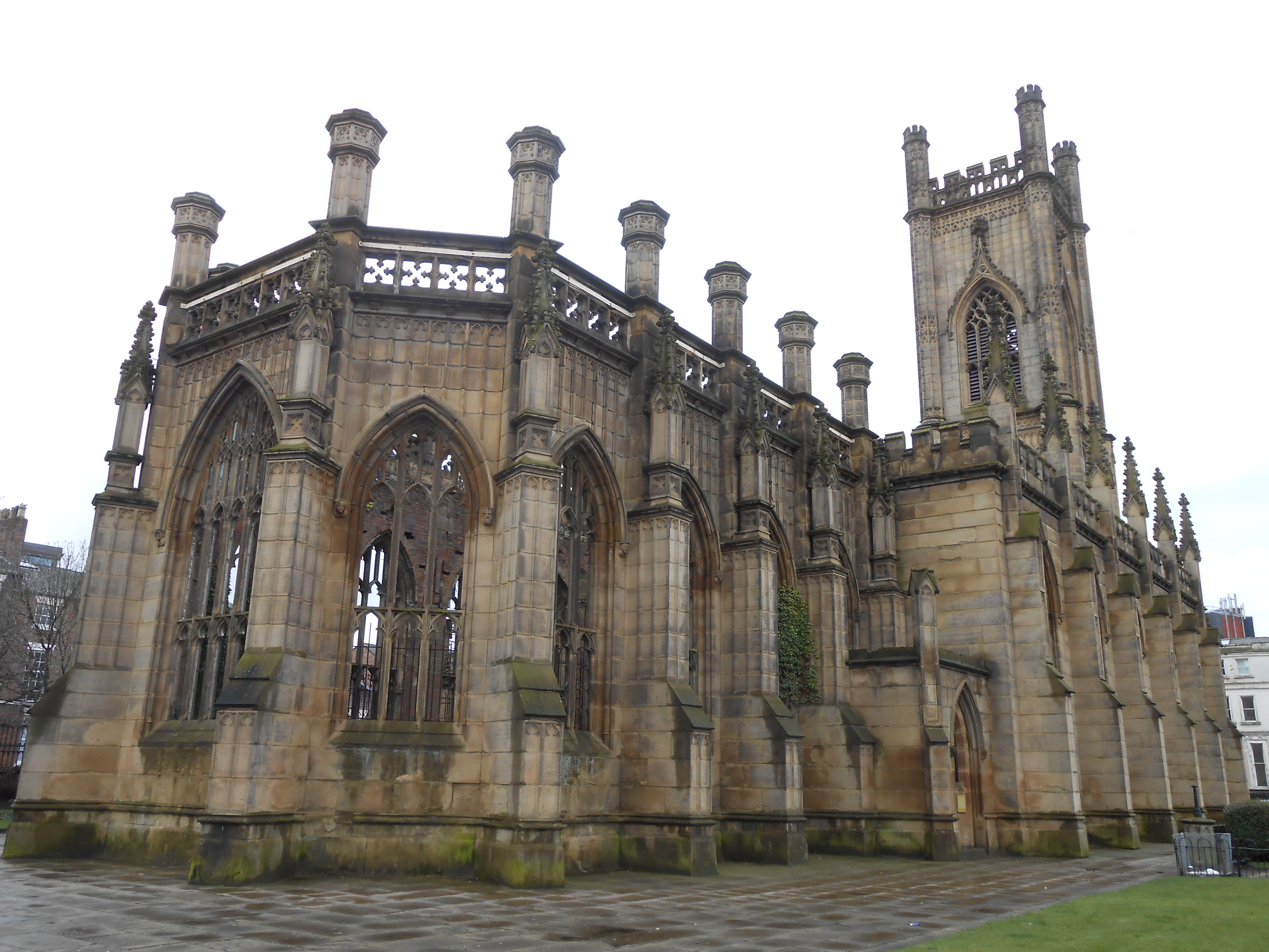 Photo taken in the grounds of St Lukes Church, Berry Street, Liverpool, England.